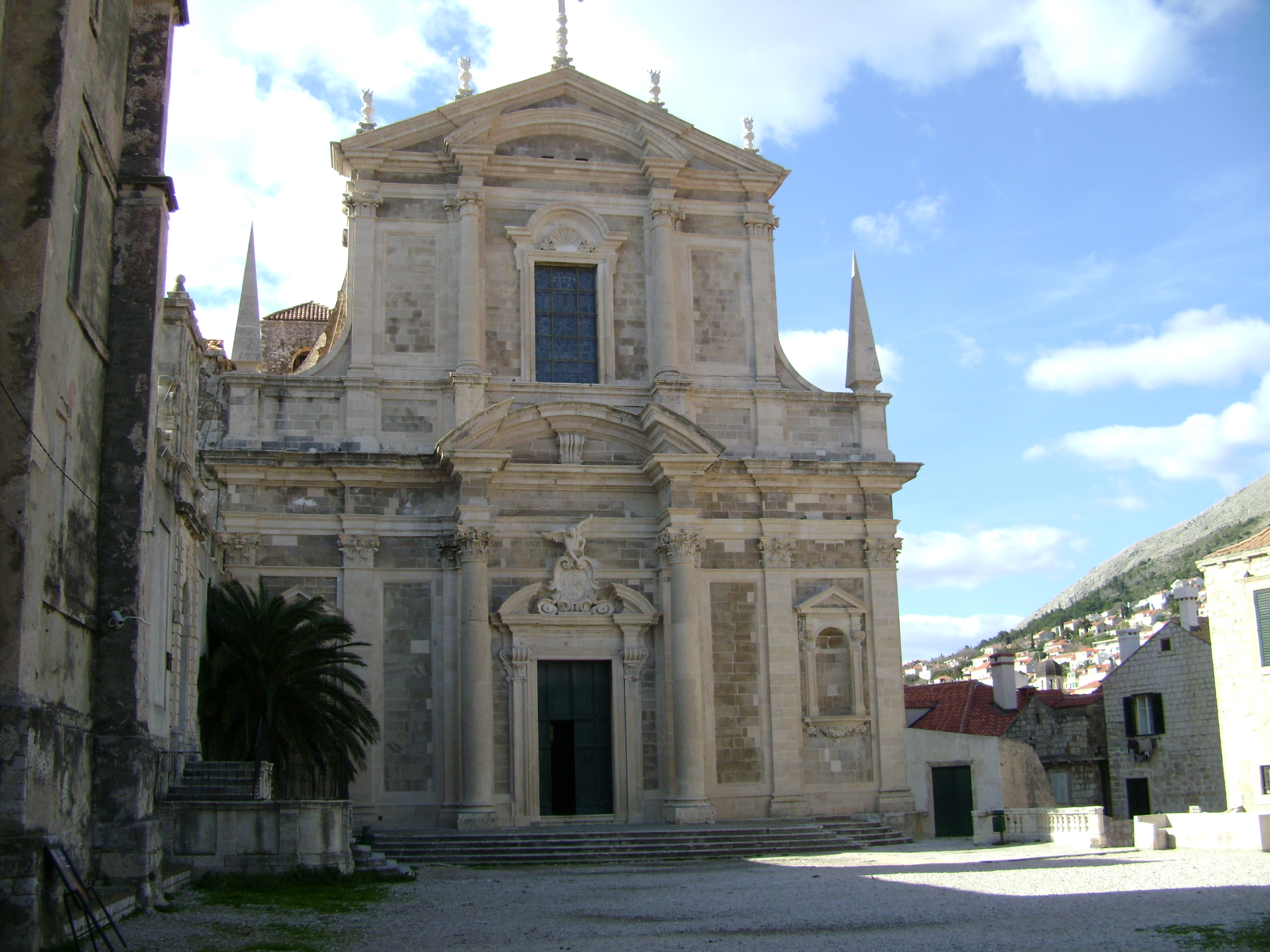 Jesuit church in Dubrovnik, designed by Jesuit architect Andrea Pozzo